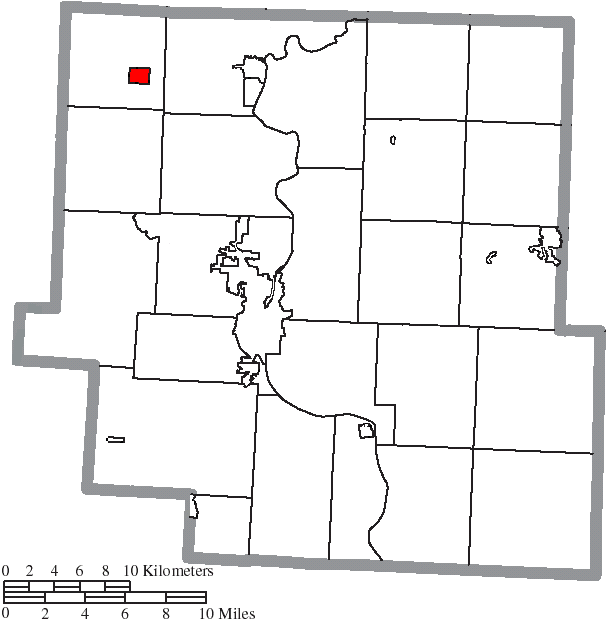 Map of the municipal and township boundaries of Muskingum County, Ohio, United States, as of the 2000 census, with the location of the village of Frazeysburg highlighted. Township borders are shown only in unincorporated areas in order to differentiate incorporated and unincorporated areas more clearly.